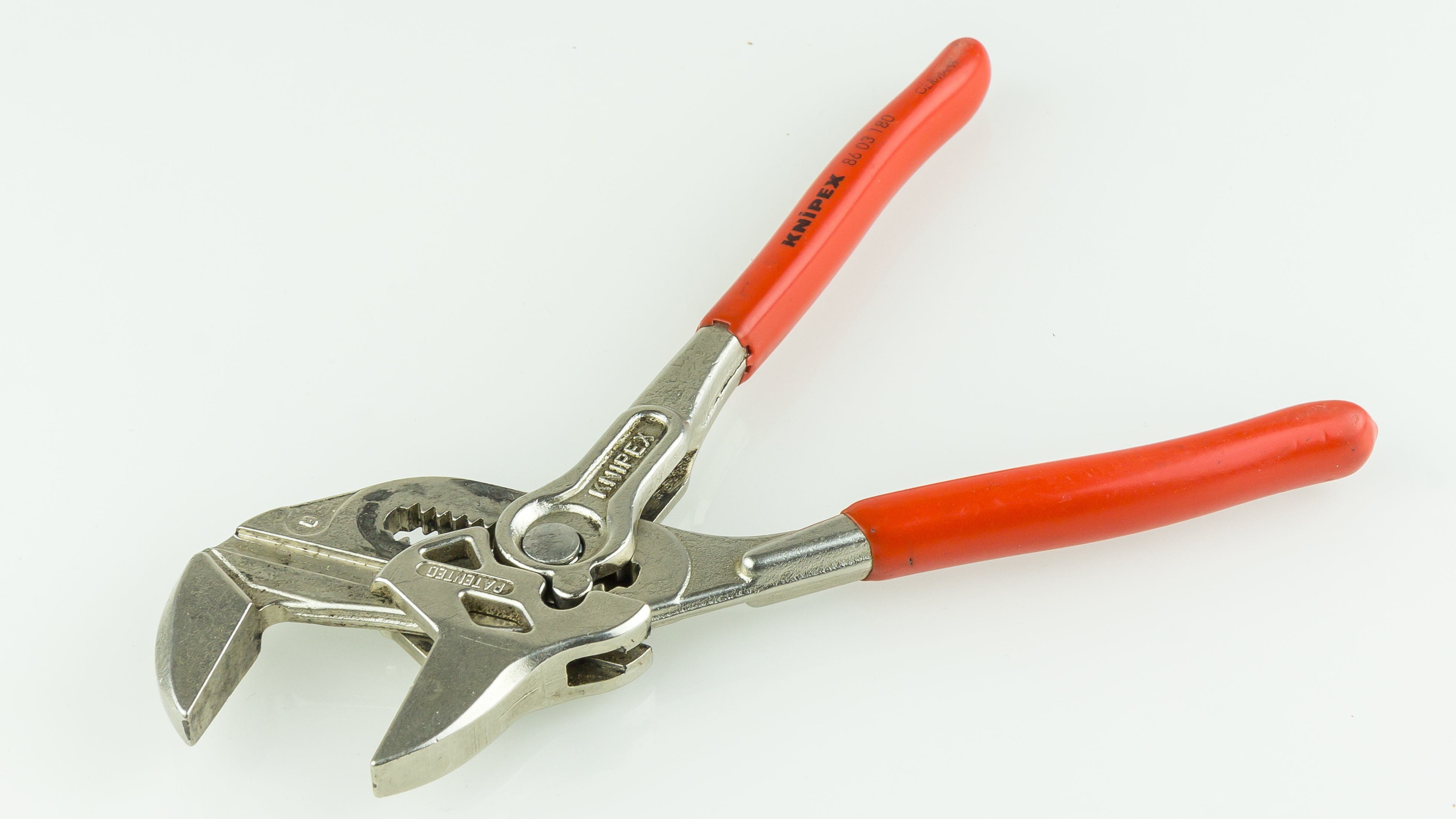 Knipex pliers wrench 180 mm. Product no. 86 03 180